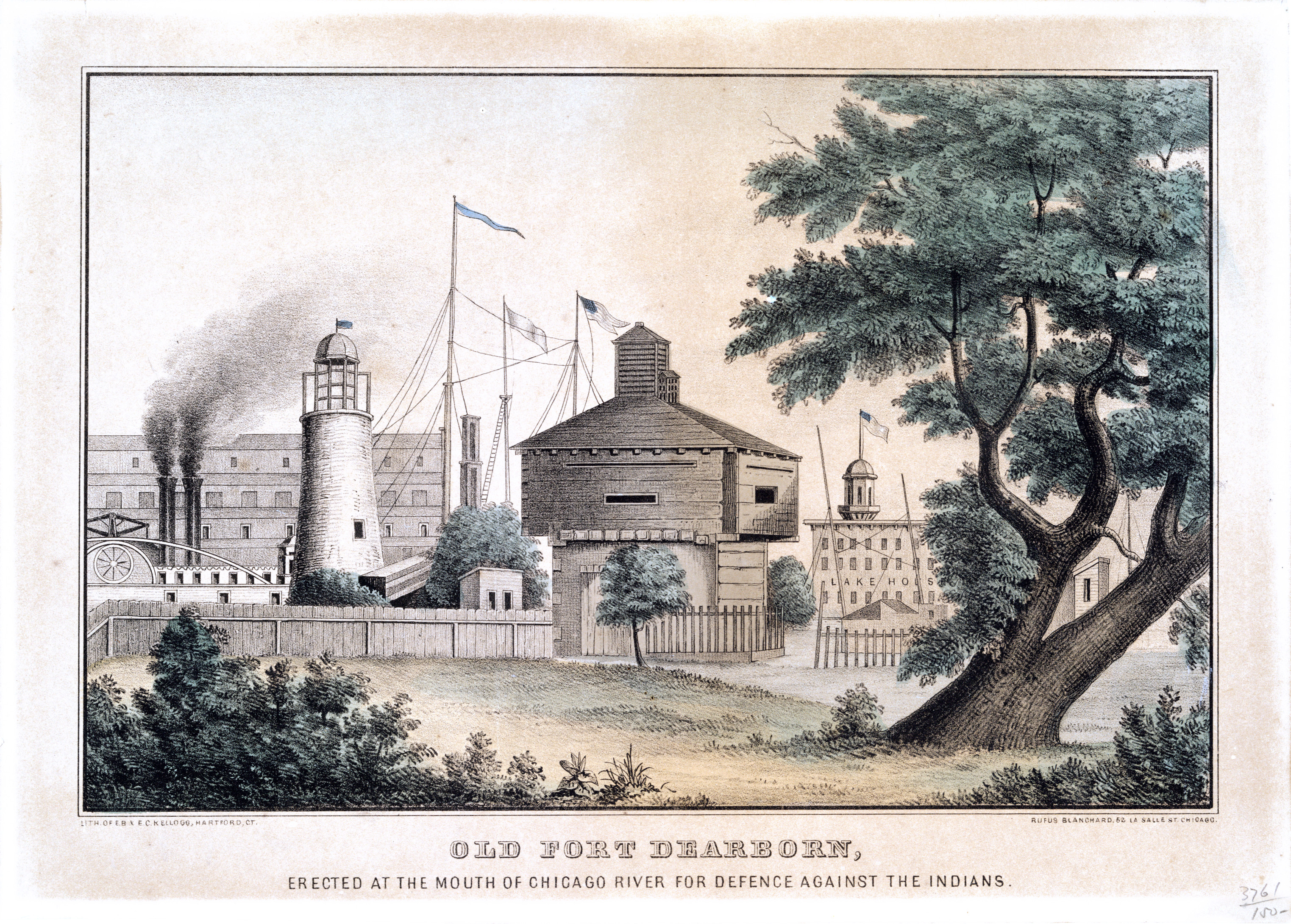 Stokes P.1857-D-8 Deák 718